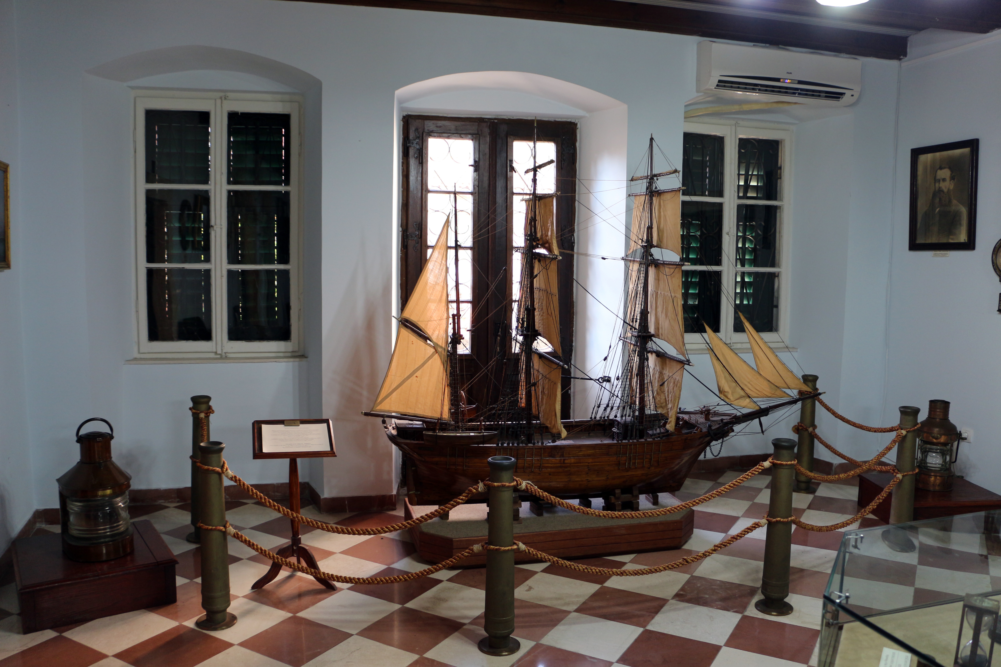 Maritime Museum of Montenegro in Kotor